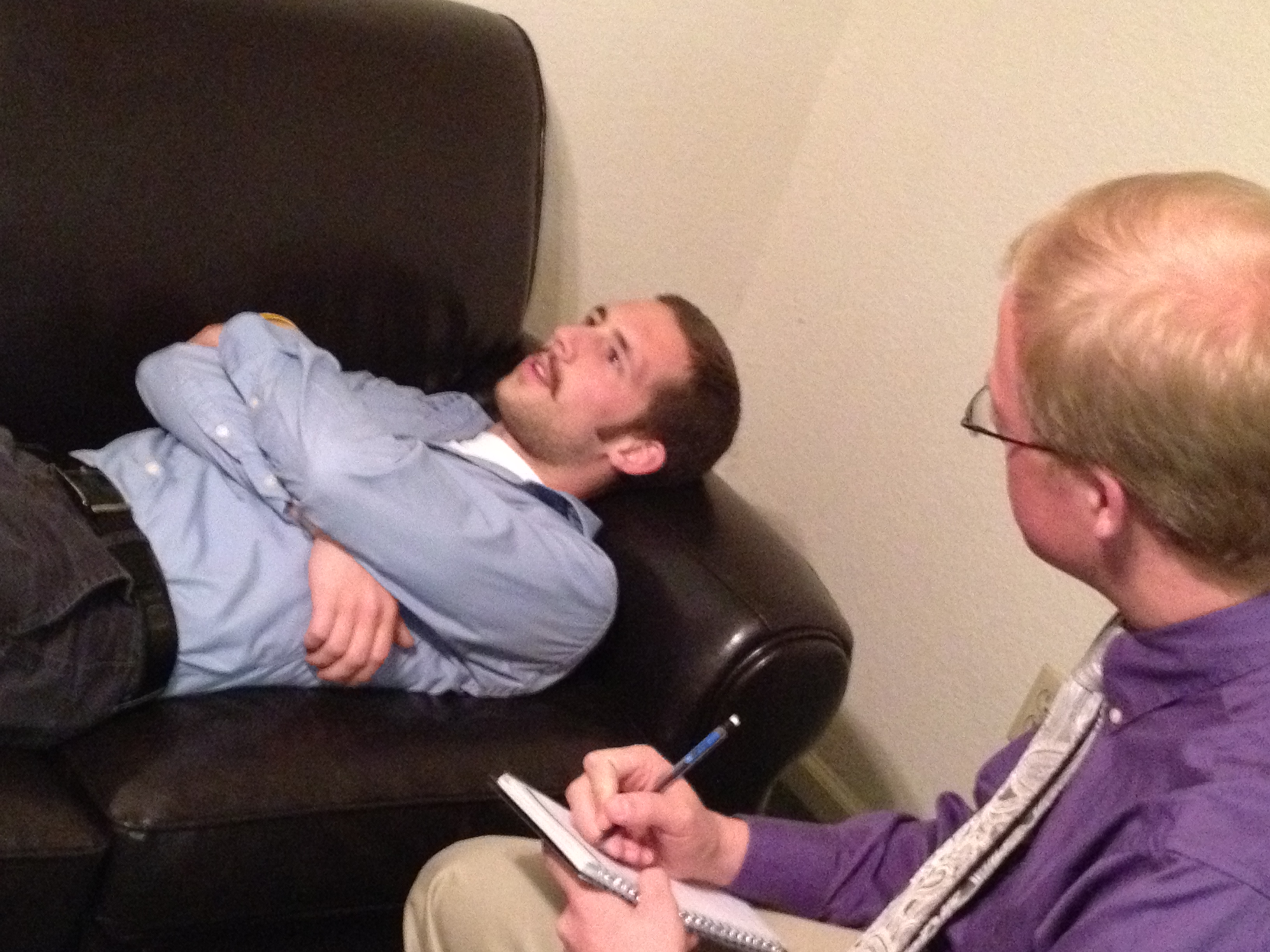 A psychologist treating a patient.